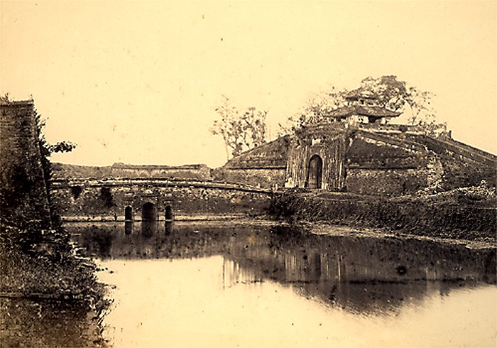 North gate of the citadel of Hanoi, from outside.